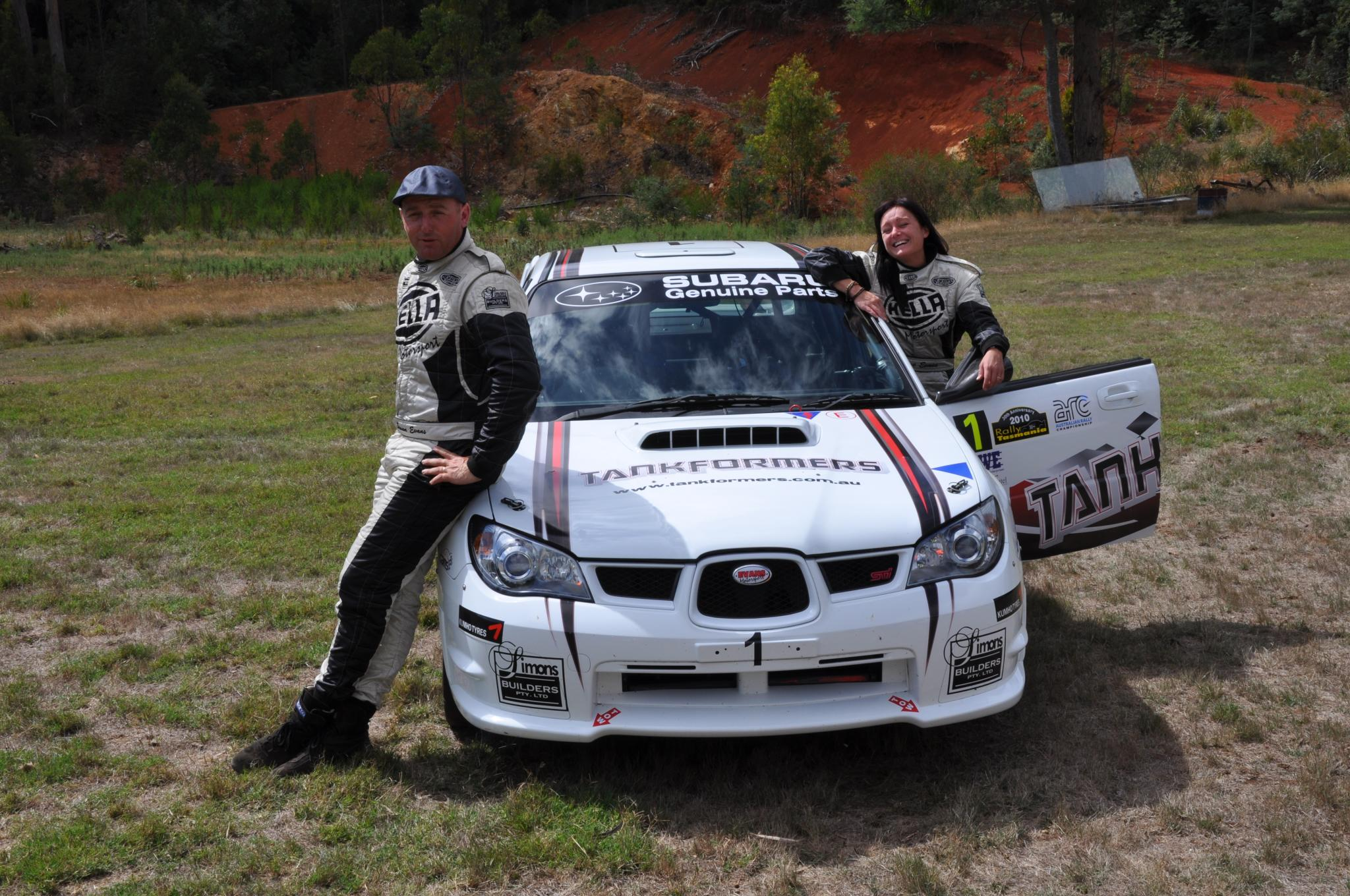 Simon and Sue Evans with their Subaru Impreza WRX STI. Rally Tasmania, 2010 Australian Rally Championship, Media day and the first competitive stages.